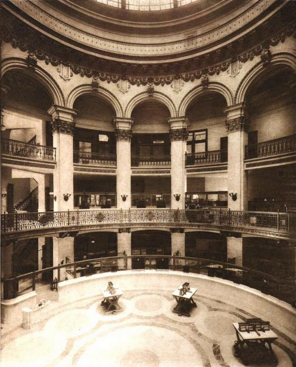 Main banking room in the Cleveland Trust Company Building in Cleveland, Ohio, in the United States in 1909.